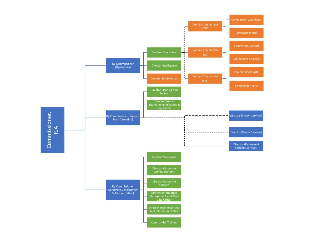 A organisational chart of the Immigration and Checkpoints Authority, Singapore